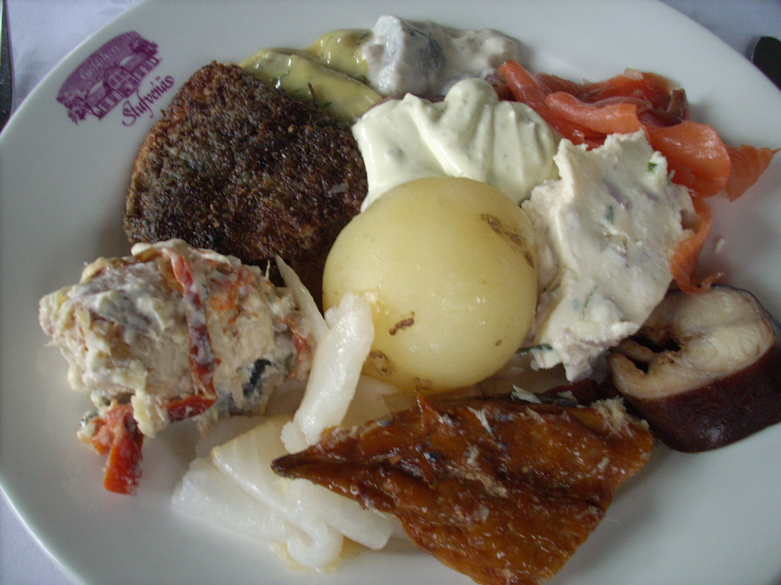 smörgåsbord), Swedish buffet